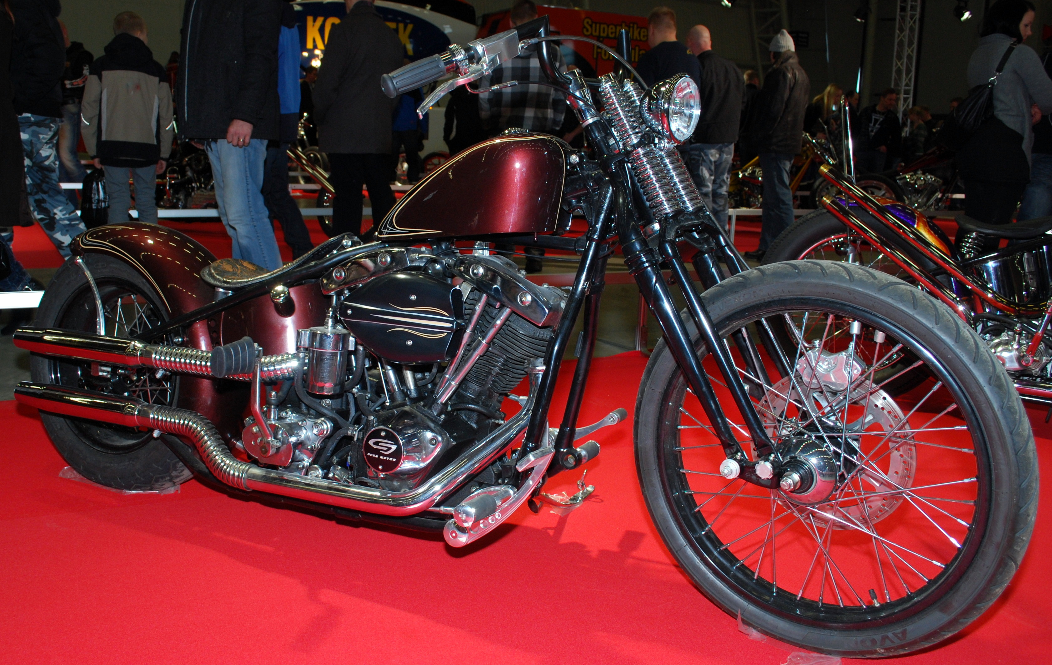 Tuomas Tapola's 1340cm3 shovelhead bobber Built by Spok Motor Paint by Platu